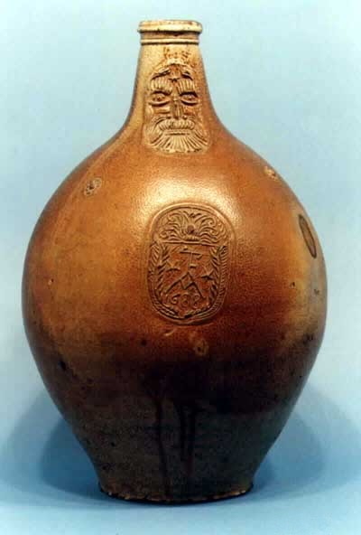 Bellarmine jug, 18" tall